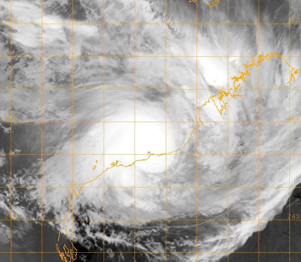 Infrared satellite image of Severe Tropical Cyclone George shortly before making landfall in Australia on 8 March 2007